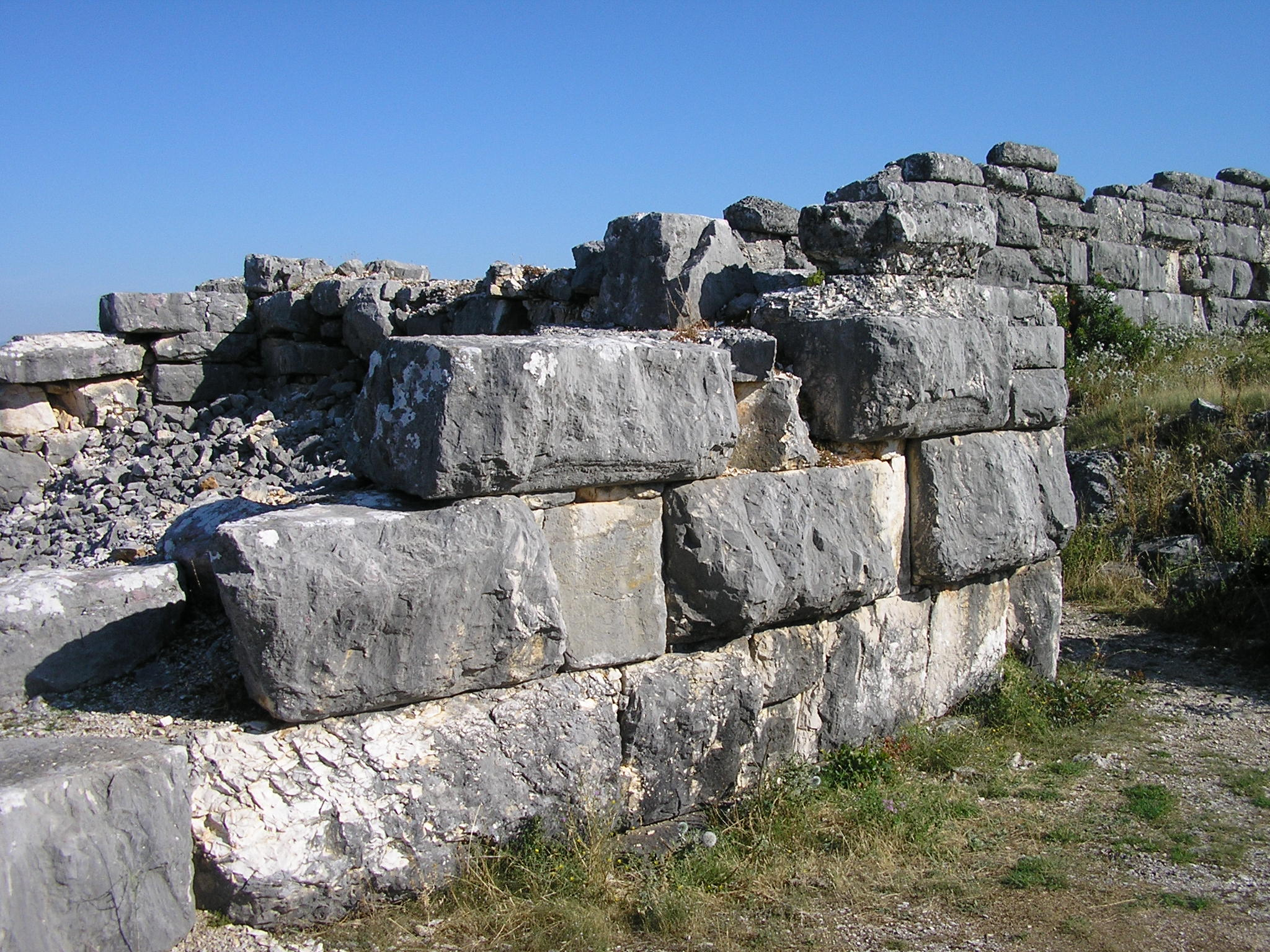 Daorson near Stolac